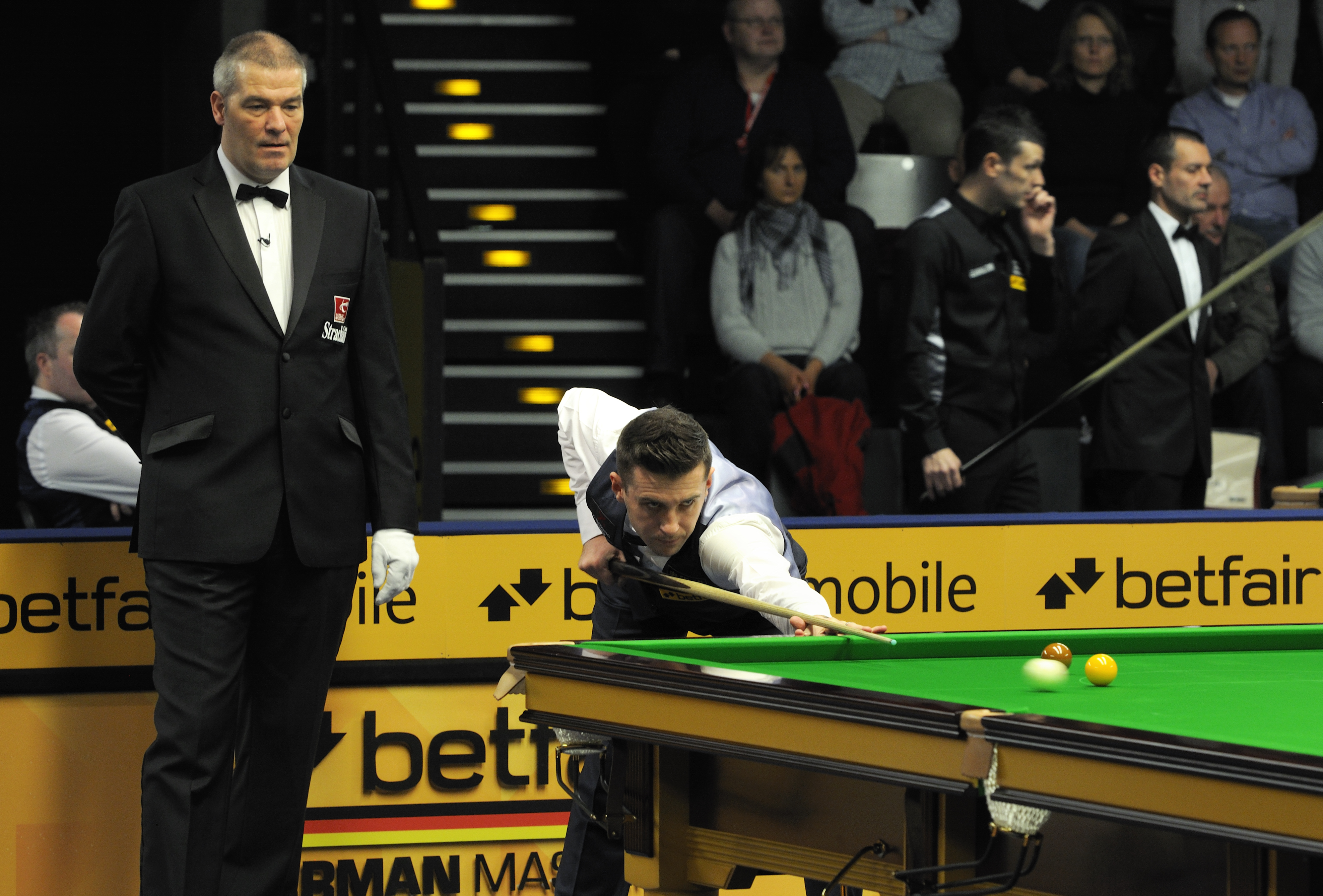 Picture taken in Berlin during the Snooker German Masters in 2013. Jan Verhaas, Mark Selby.